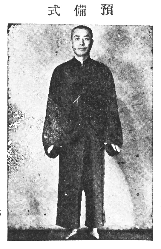 Dong Yingjie performing the "commencement of taijiquan"